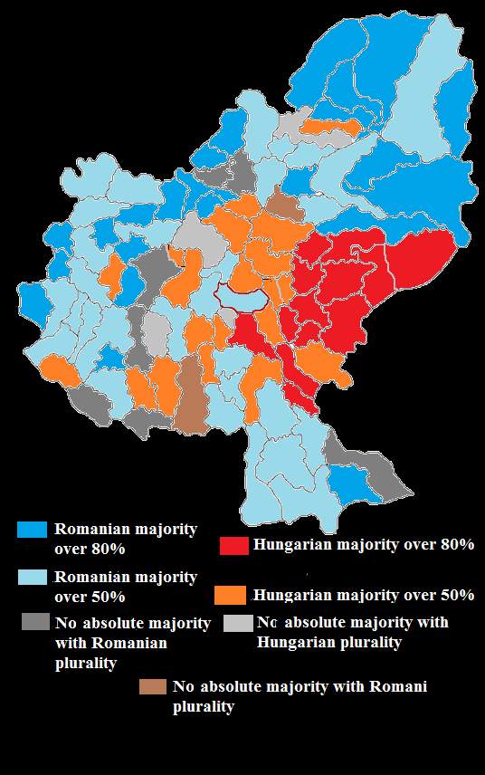 Ethnic map of Mureș County, based on the 2011 census.